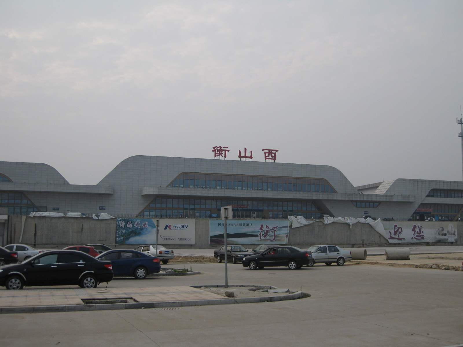 Hengshanxi Station outview